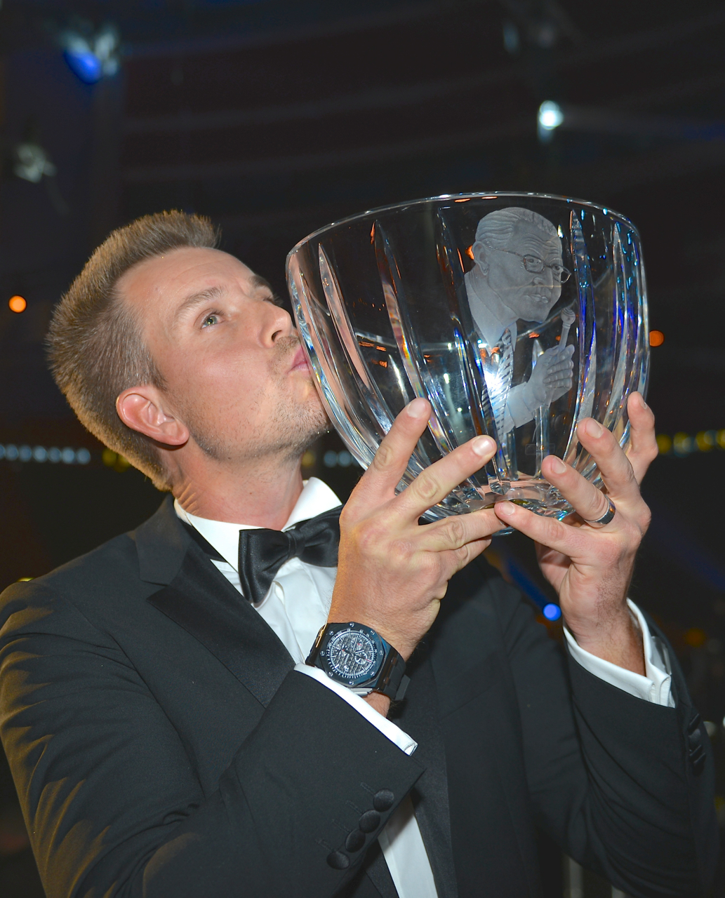 Henrik Stenson wins Jerring Prize 2013 at the Swedish Sports Gala at the Ericsson Globe in Stockholm on January 13, 2014.